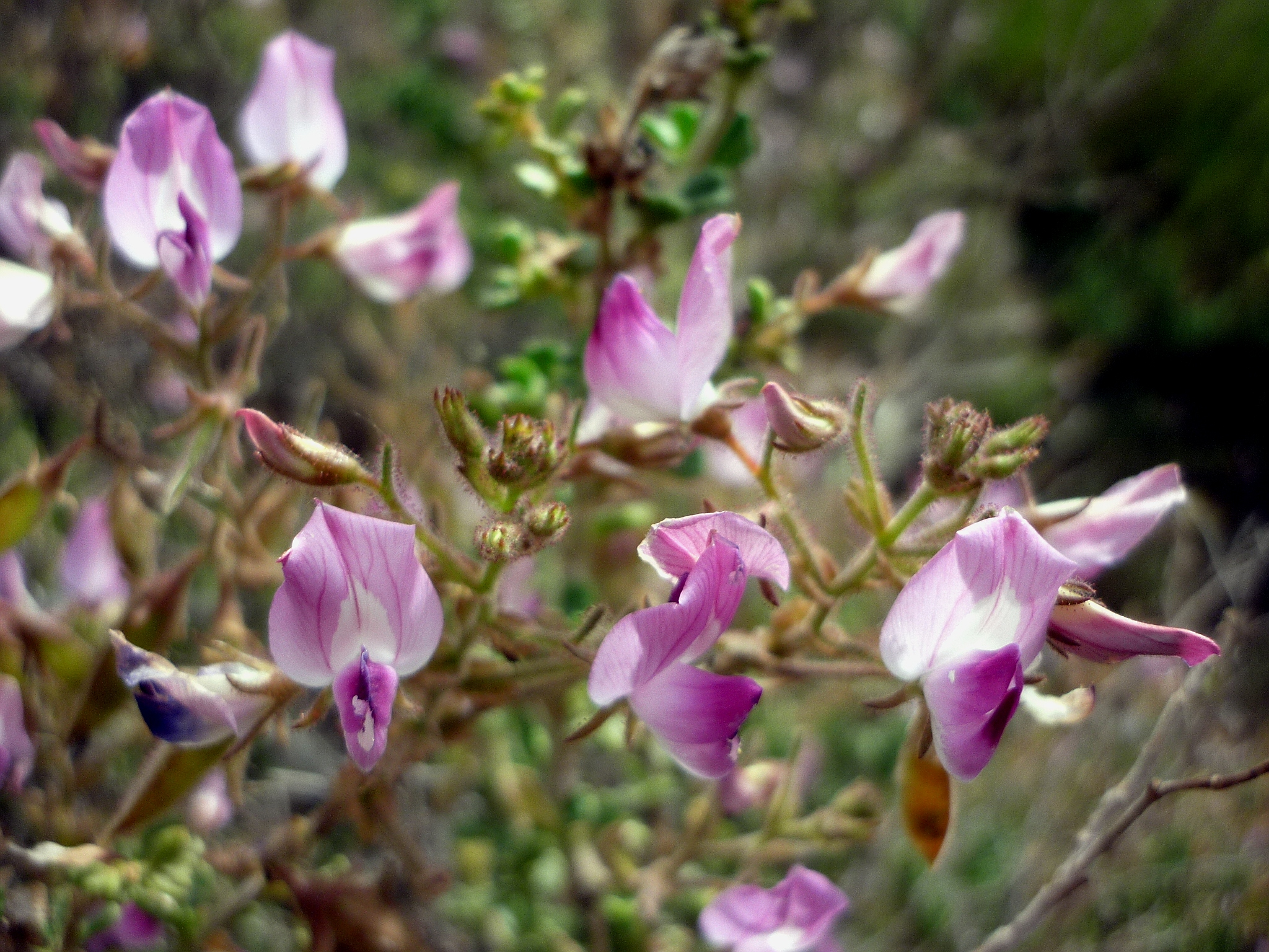 Ononis tridentata. In Torà (Segarra-Catalunya). On 520 m. altitude